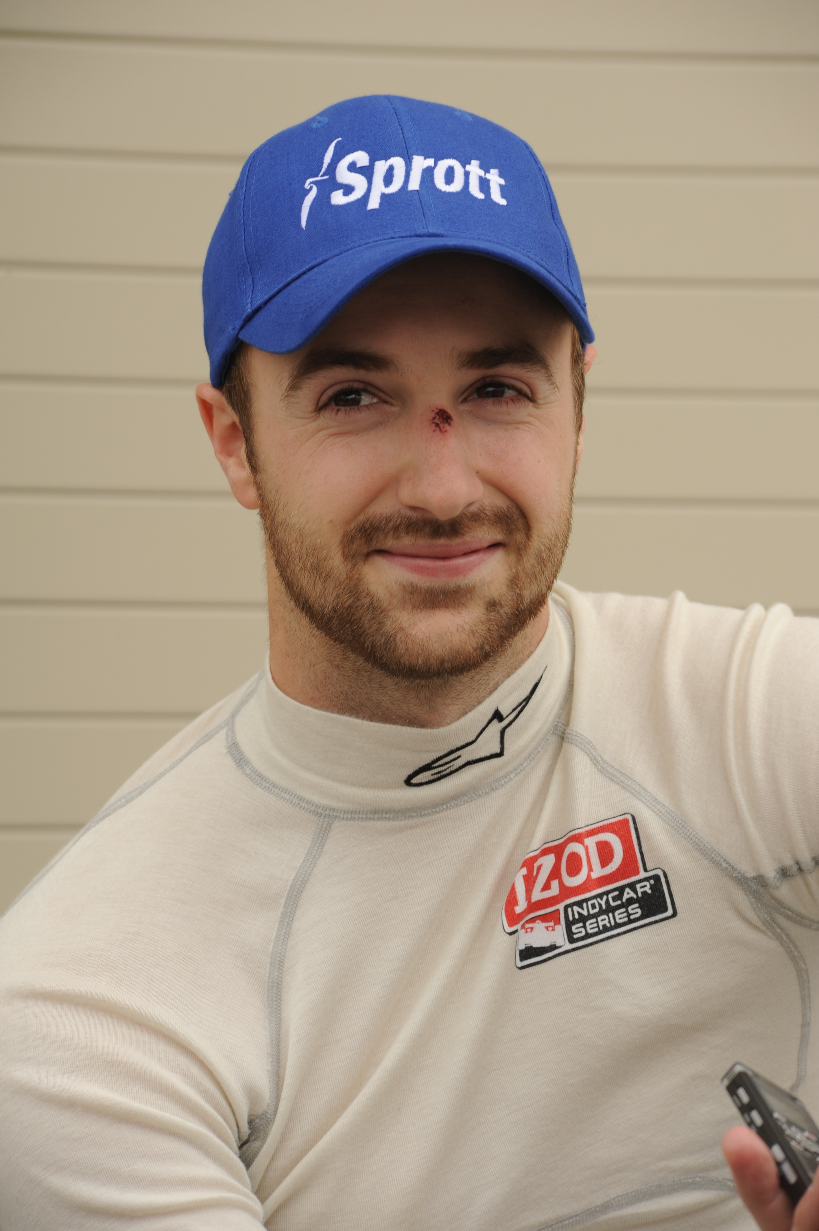 James Hinchcliff at the Indianapolis Motor Speedway on the first day of qualifying for the 500.